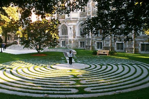 The Boston College Memorial Labyrinth. In memory of BC Alumni who died in the terrorist attacks of September 11, 2001